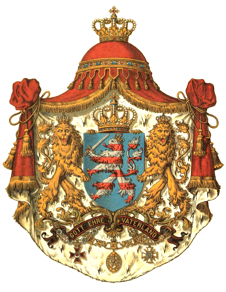 Great majesty crest of the Grand Duchy of Hesse